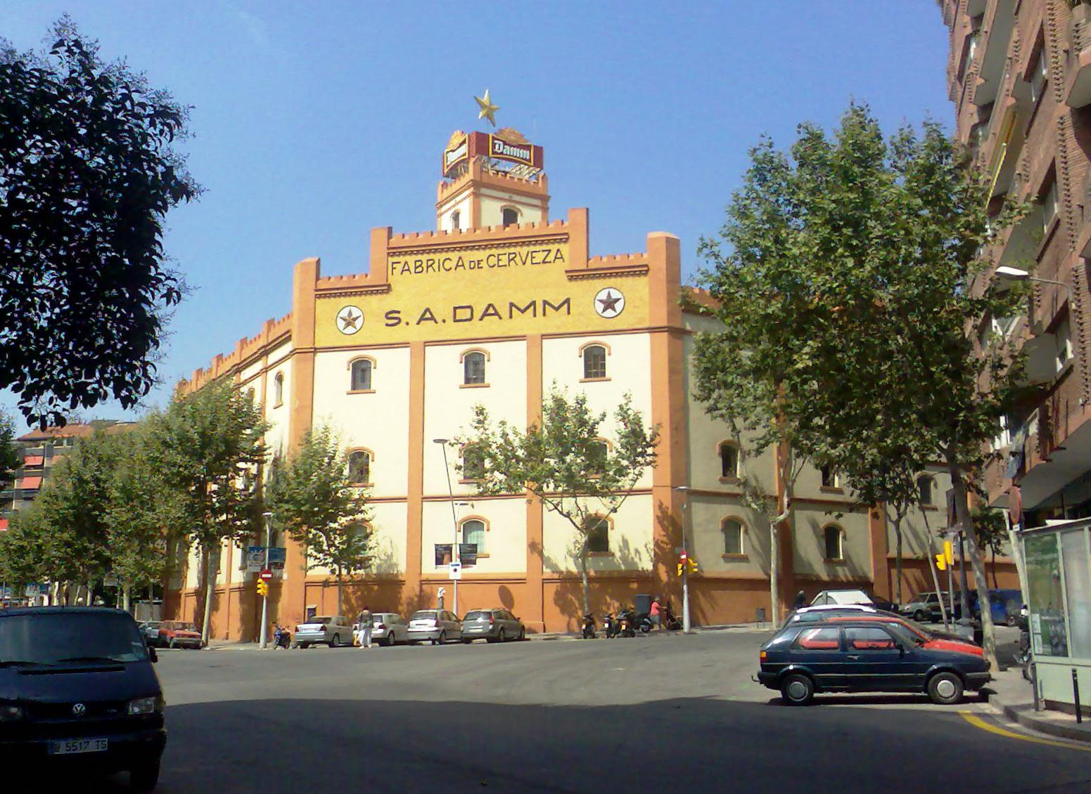 Brewery S. A. Damm in Barcelona, Spain. Junction of streets Rosselló and Dos de Maig